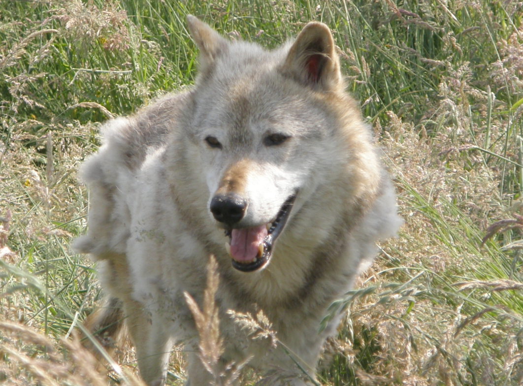 Kodiak, a 13-year-old captive North American wolf at the UK Wolf Conservation Trust in Berkshire, England. The photo was taken by myself in early June 2007 and shows Kodiak moulting (with large tufts of loose fur visible).